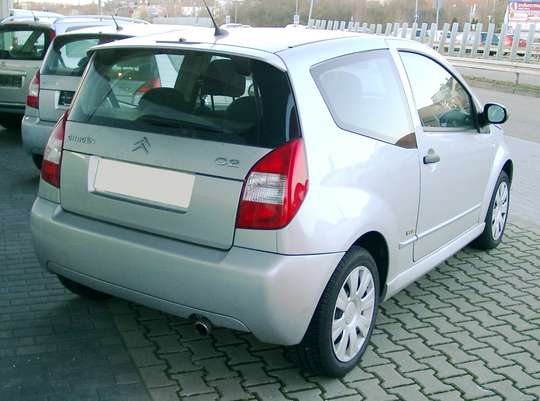 Citroën C2